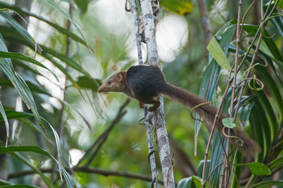 Nicobar Treeshrew (Tupaia nicobarica nicobarica) photographed near Campbell Bay in Great Nicobar, India.